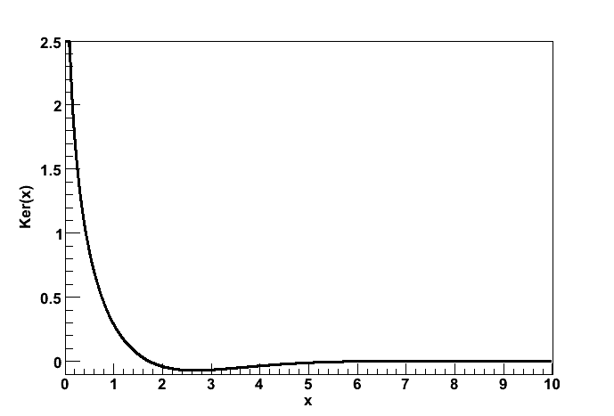 A plot of the Kelvin function Ker(x) between 0 and 10.